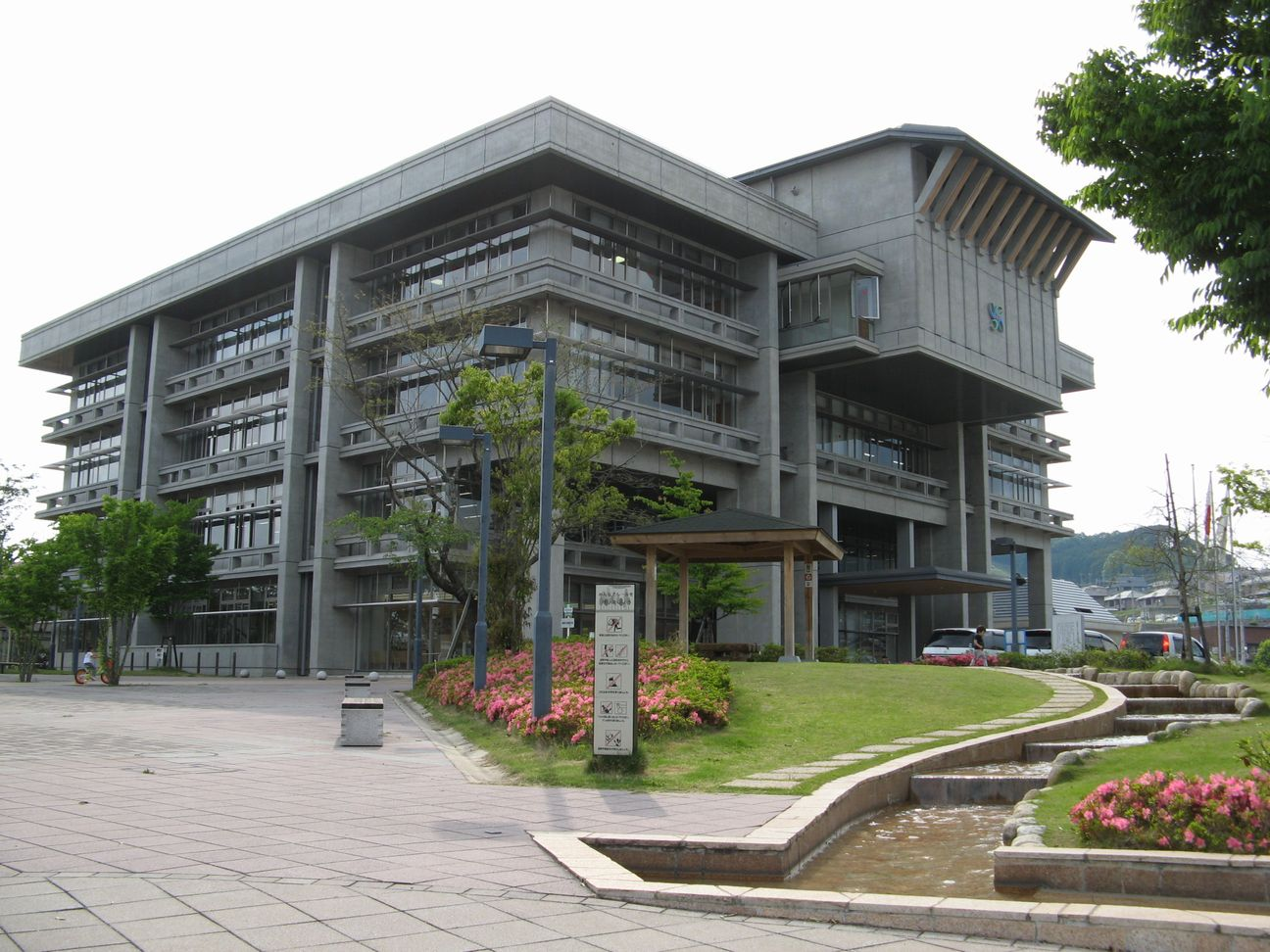 Uda City Hall in Nara Prefecture, Japan